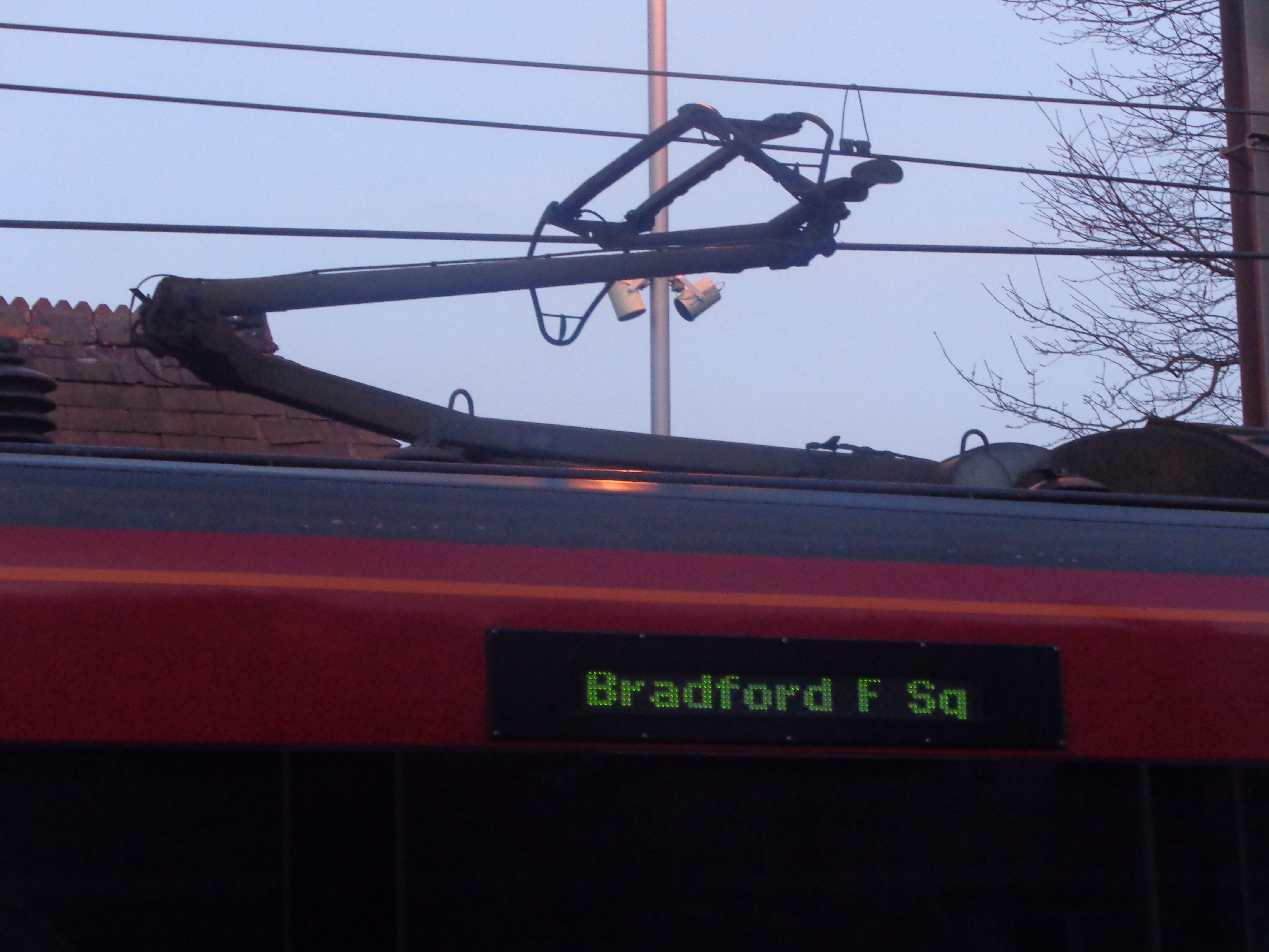 Pantograph on the Bradford Forster Square train at Menston railway station, West Yorkshire. Taken on the afternoon of Tuesday the 30th of December.